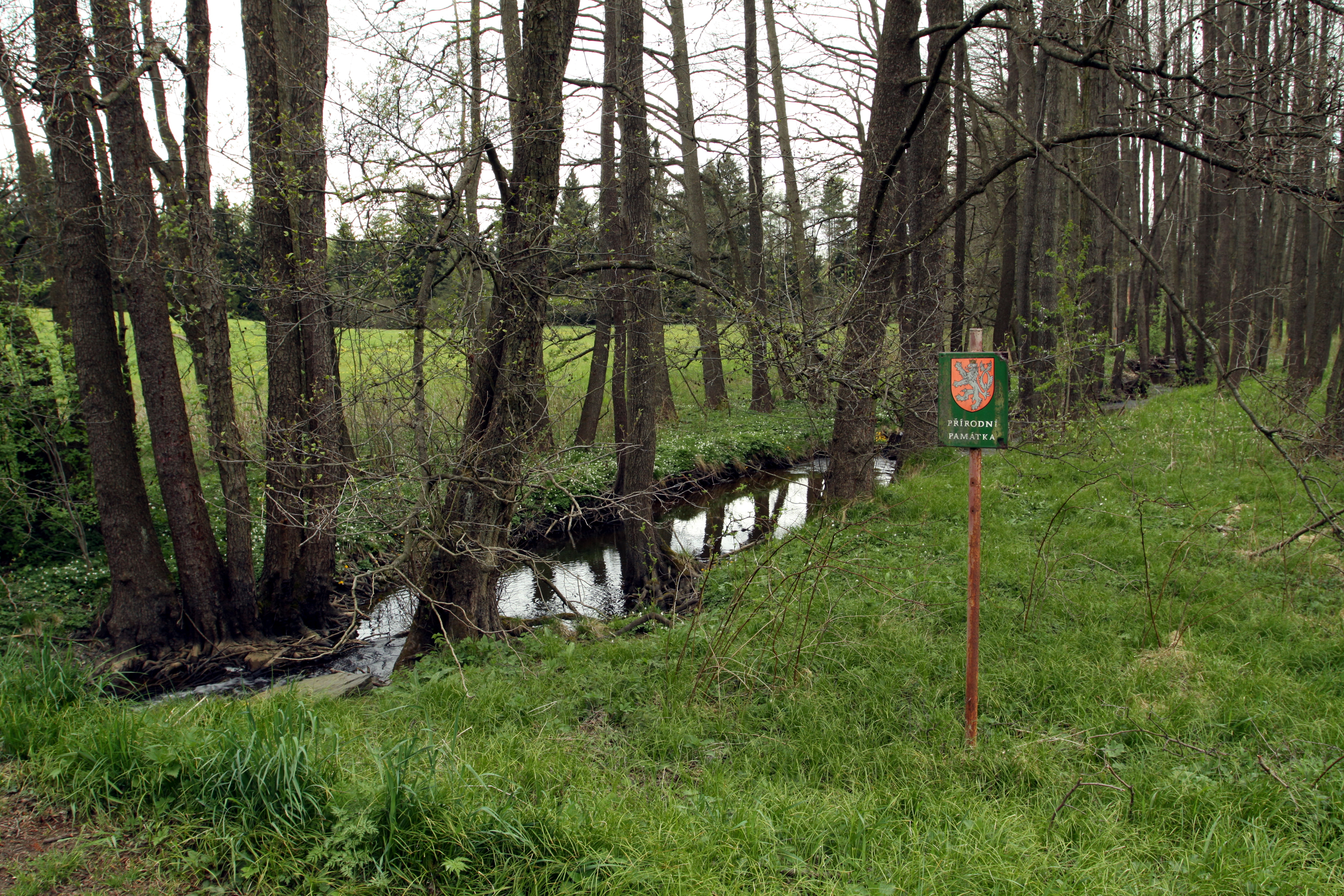 National natural monument Lužní potok in Cheb District, Czech Republic